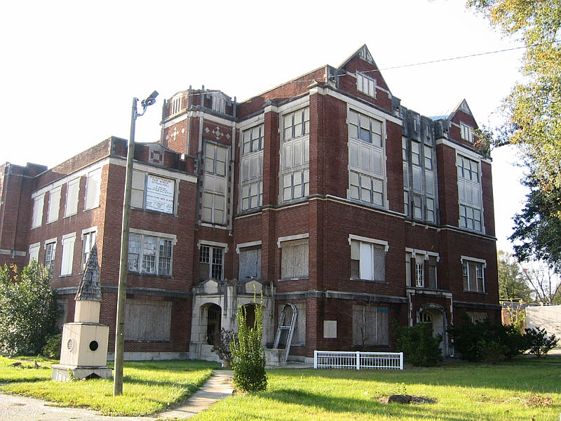 Front and east-side view of the Old Hattiesburg High School, in Hattiesburg, Forrest County, Mississippi, USA.